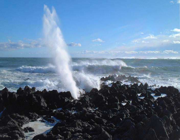 Iwai-saki(cape),Kesennuma-city,Miyagi-prefecture,Japan.